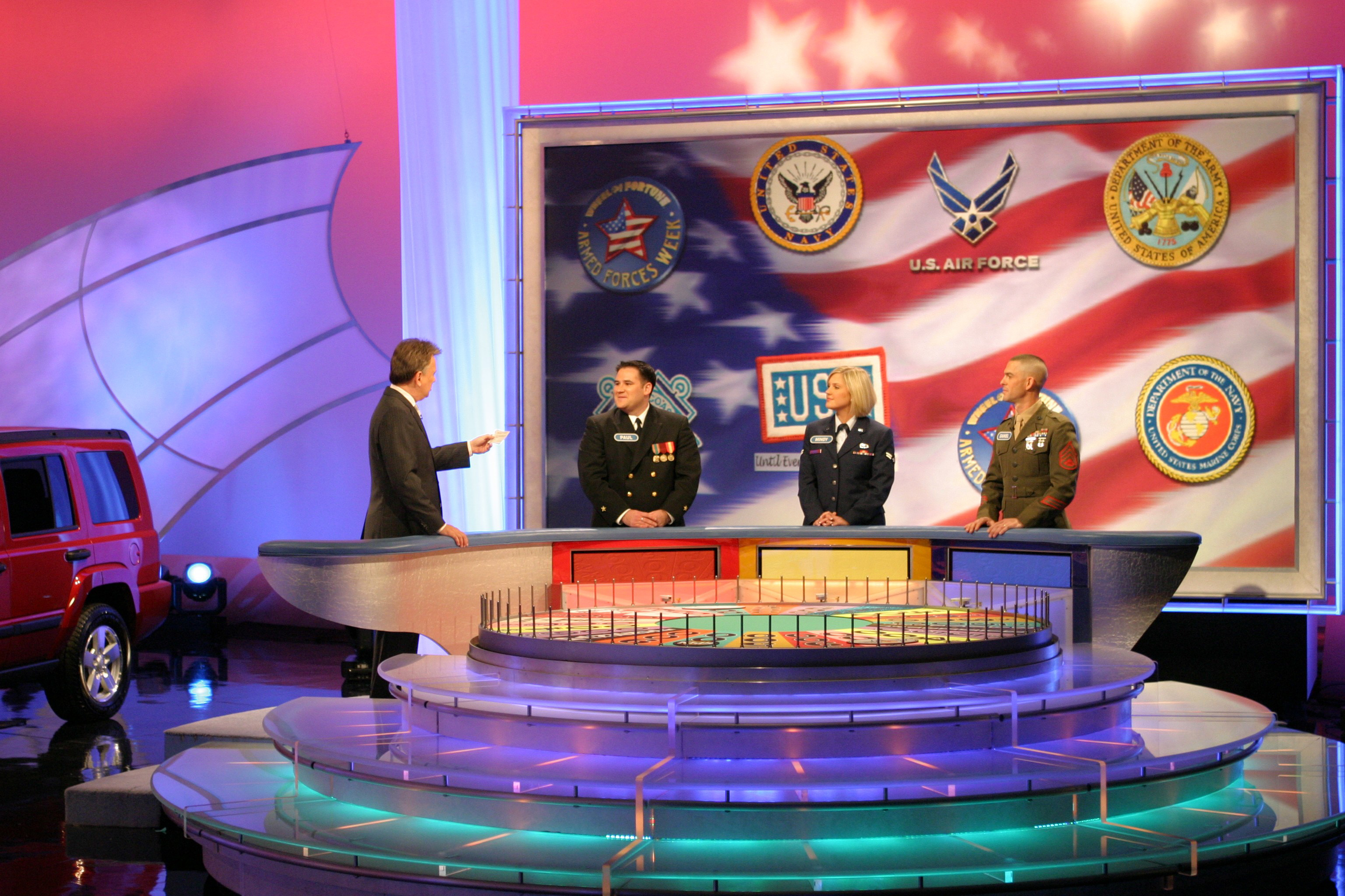 A shot of the contestant/wheel area of the Wheel of Fortune set, circa early 2006. Taken from the website of America Supports You, a Department of Defense organization.